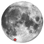 Description: Location of the Longomontanus crater on the Moon. The mark also shows the proximity of the Brown crater. Source: This is a modified version of the photo obtained from the NASA Planetary Photojournal. It was modified by RJHall. Width: 150 pixels Height: 150 pixels